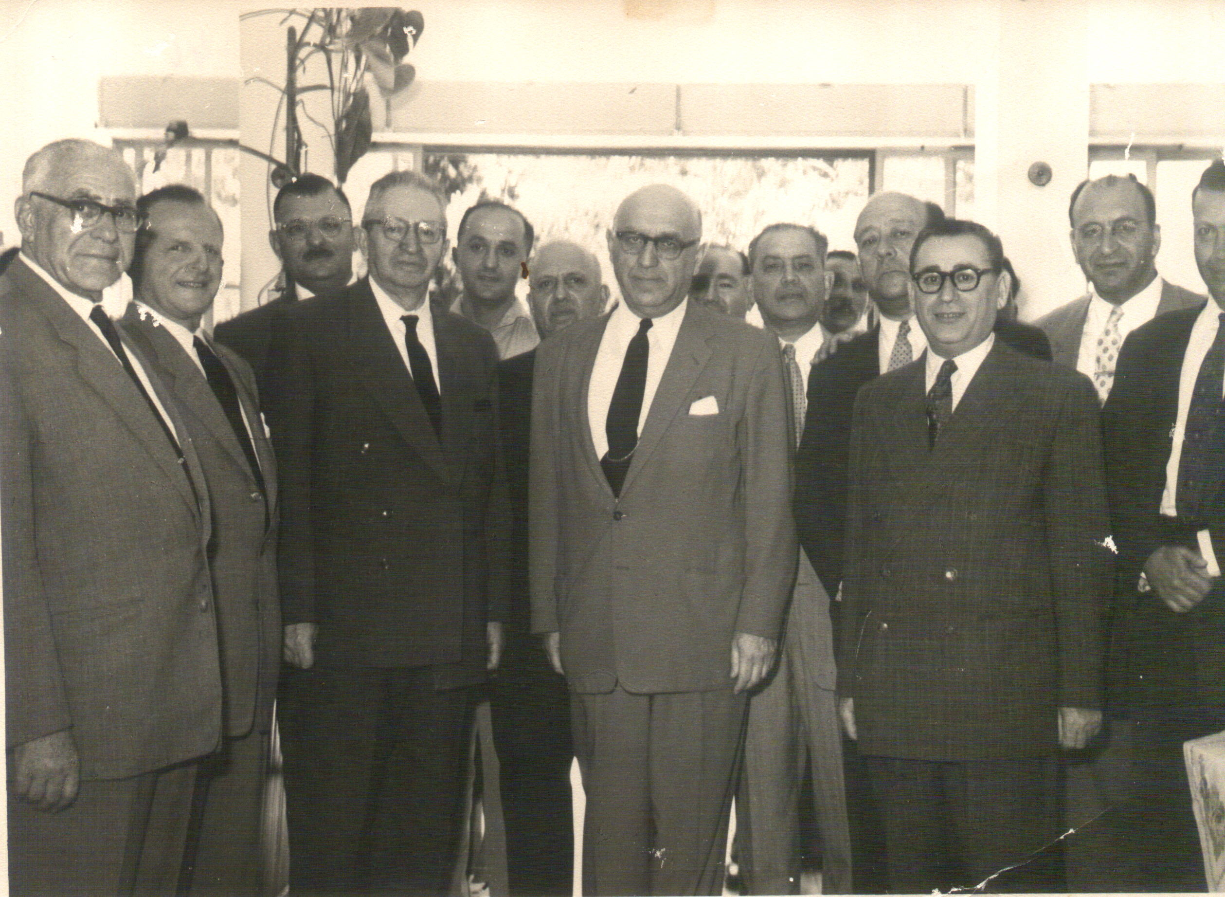 Ci-Club